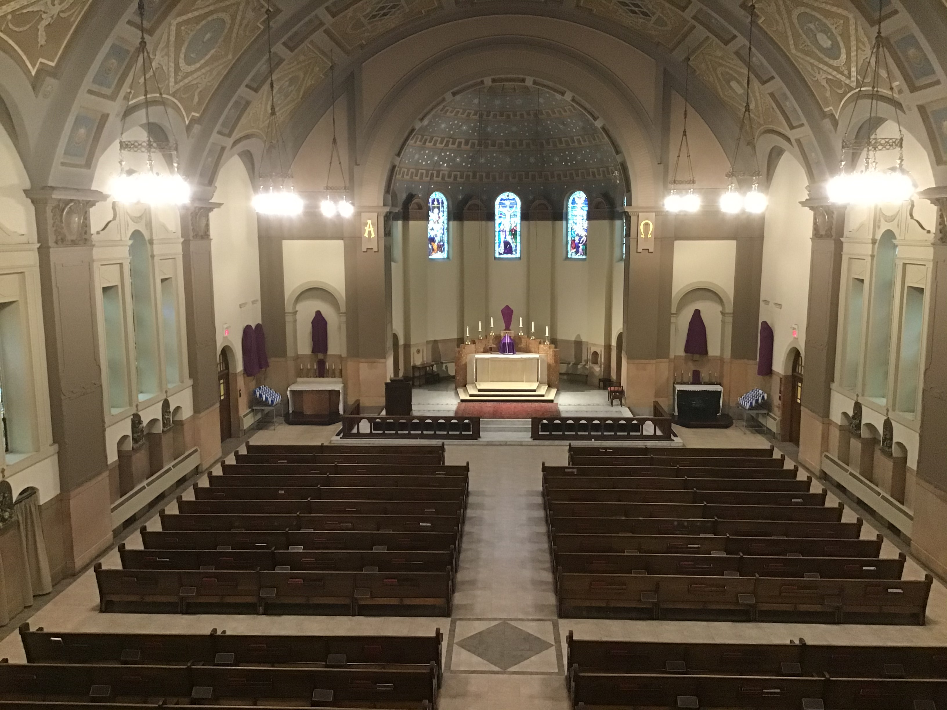 The interior of St Vincent de Paul Church, Toronto in Passiontide. 2020/03/28